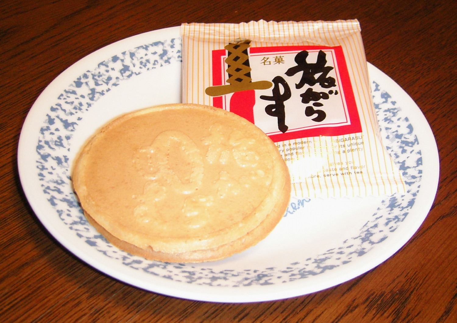 Tabigarasu made by Corporation Tabigarasu-honpo Seigetsudo.